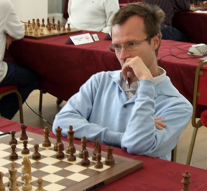 GM Sergei Tiviakov - Round 6 of 4th EU Individual Open Ch., Liverpool World Museum, William Brown Street